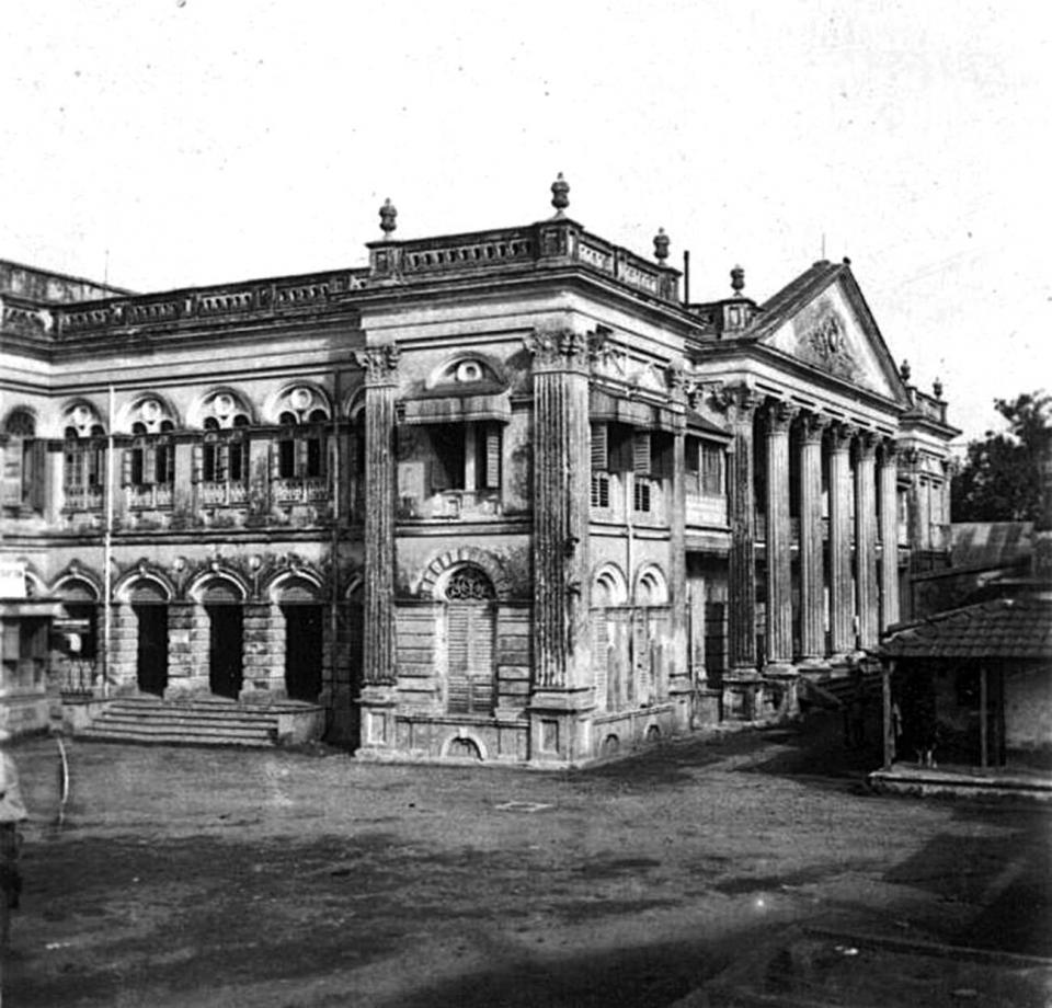 Ruplal House in the early 20th century